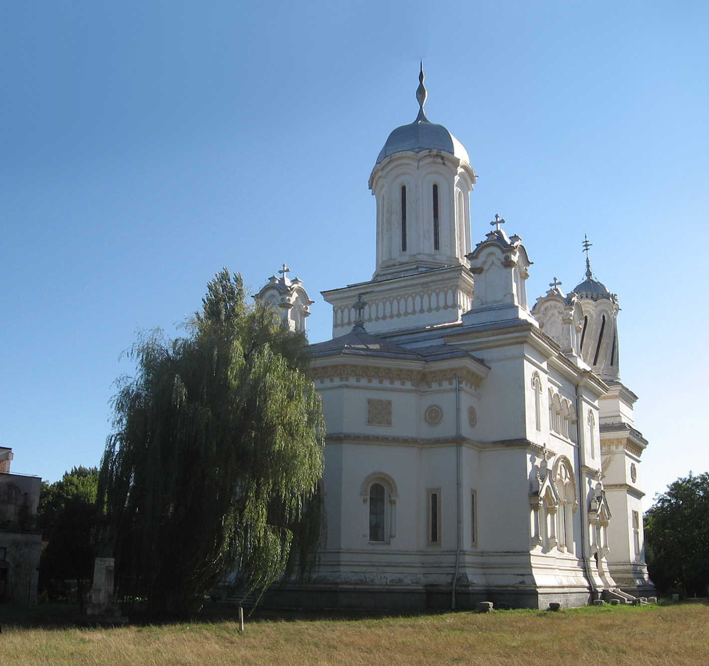 Orthodox Church Catedrala Sfantul Haralambie in Turnu Magurele, Romania